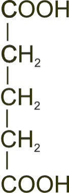 glutaric acid formula jpg